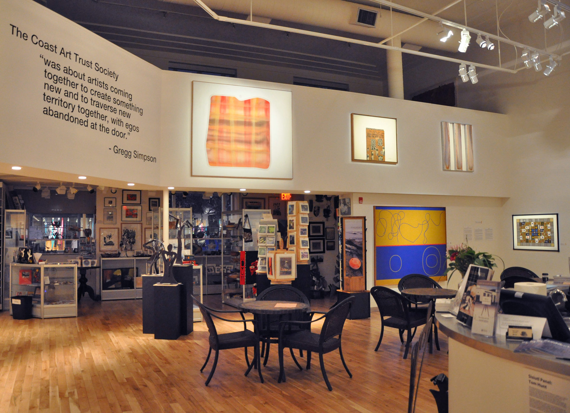 Interior shot of the Legacy Art Gallery and Cafe in Downtown Victoria BC